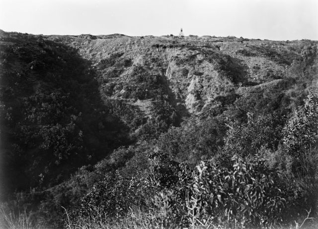 View of the Nek, Gallipoli, from the south. The area was the scene of a battle on 7 August 1915 between Australian and Ottoman troops. Photo taken after the war.